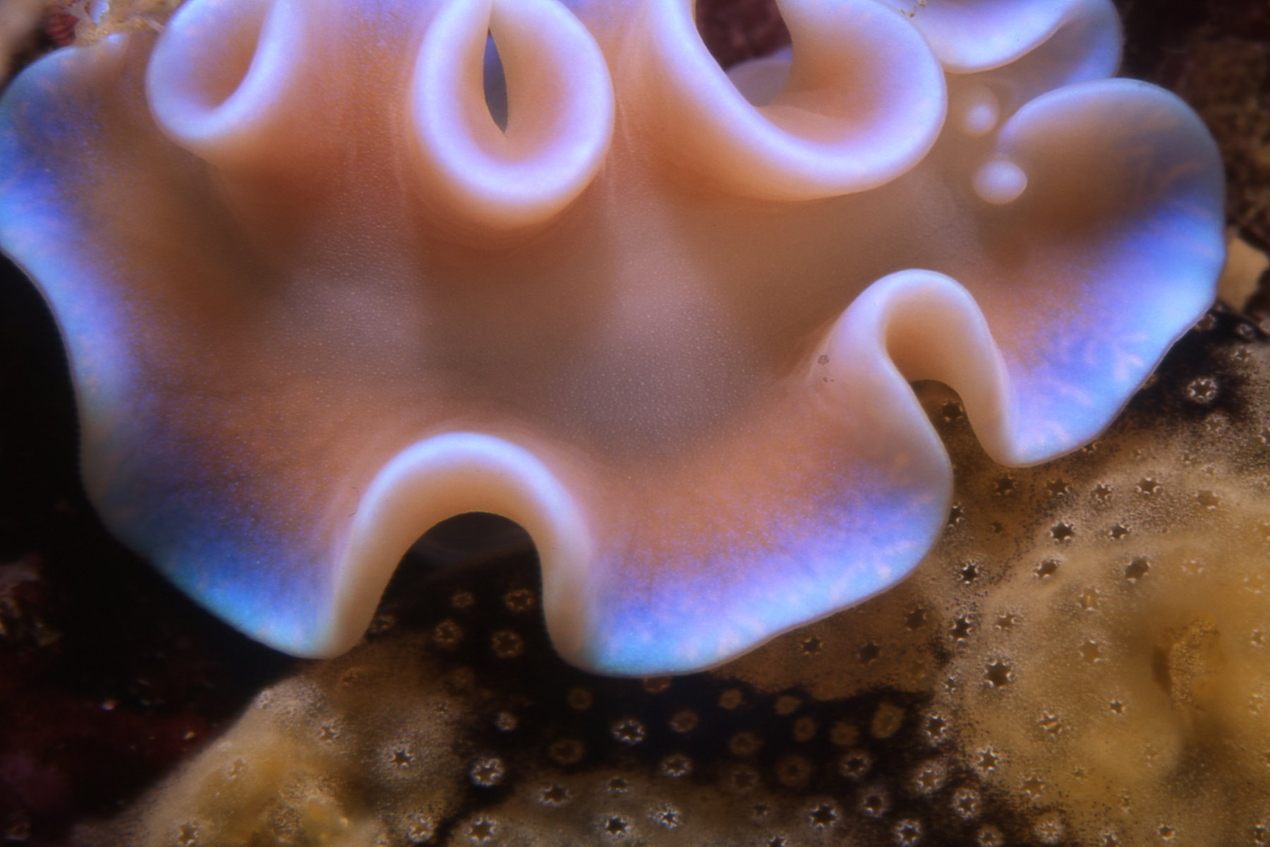 A close-up photo of the frilled nudibranch, Leminda millecra, taken in 35m of water in False Bay off the South African coast using a Nikonos V camera. Animal size approximately 60mm